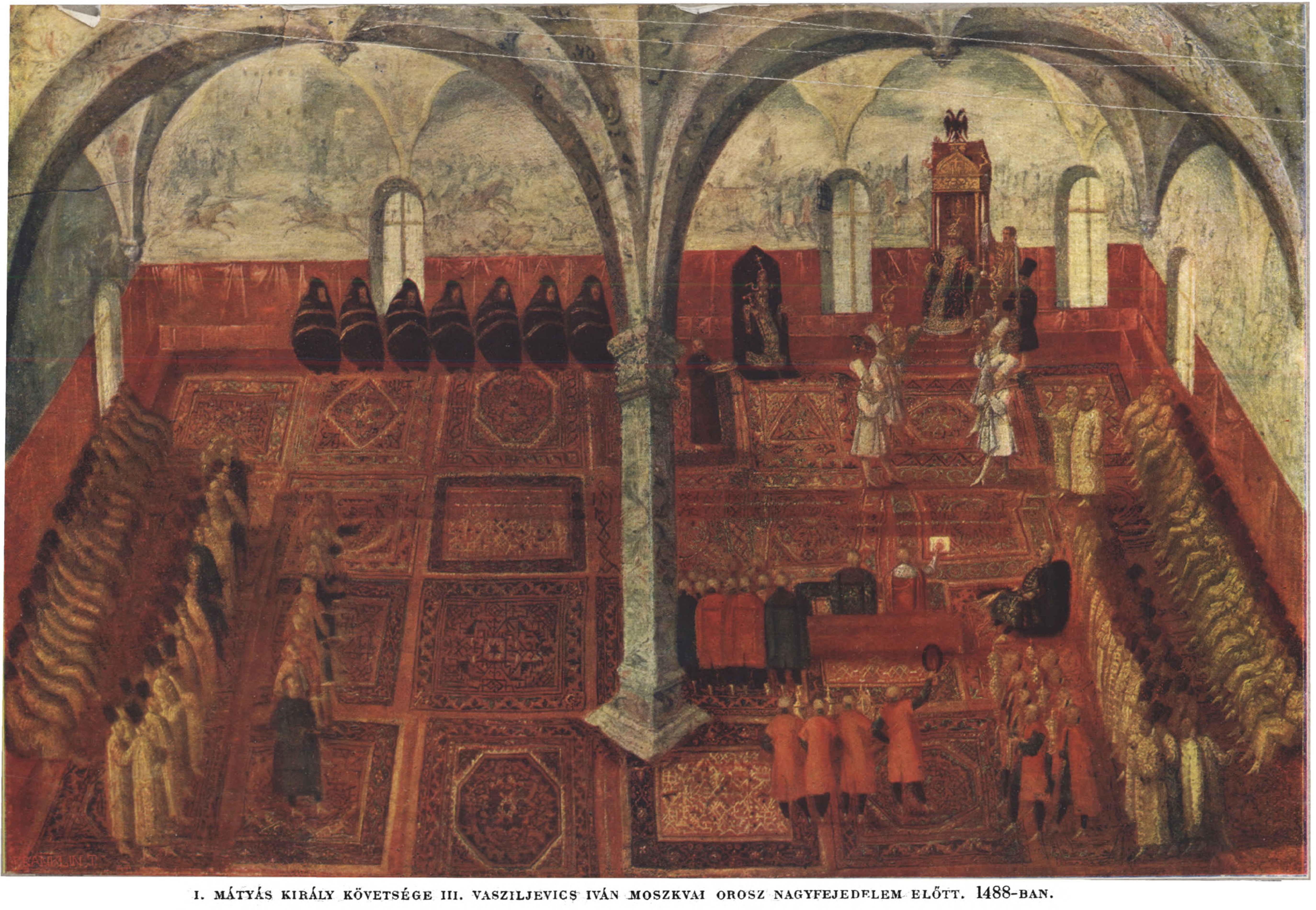 The 1488 legation of Matthias Corvinus of Hungary in the court of Ivan III of Russia. Painting of an unknown Hungarian artist from the early 16th century. Hungarian National Gallery. The Hungarians are in red and black clothes.